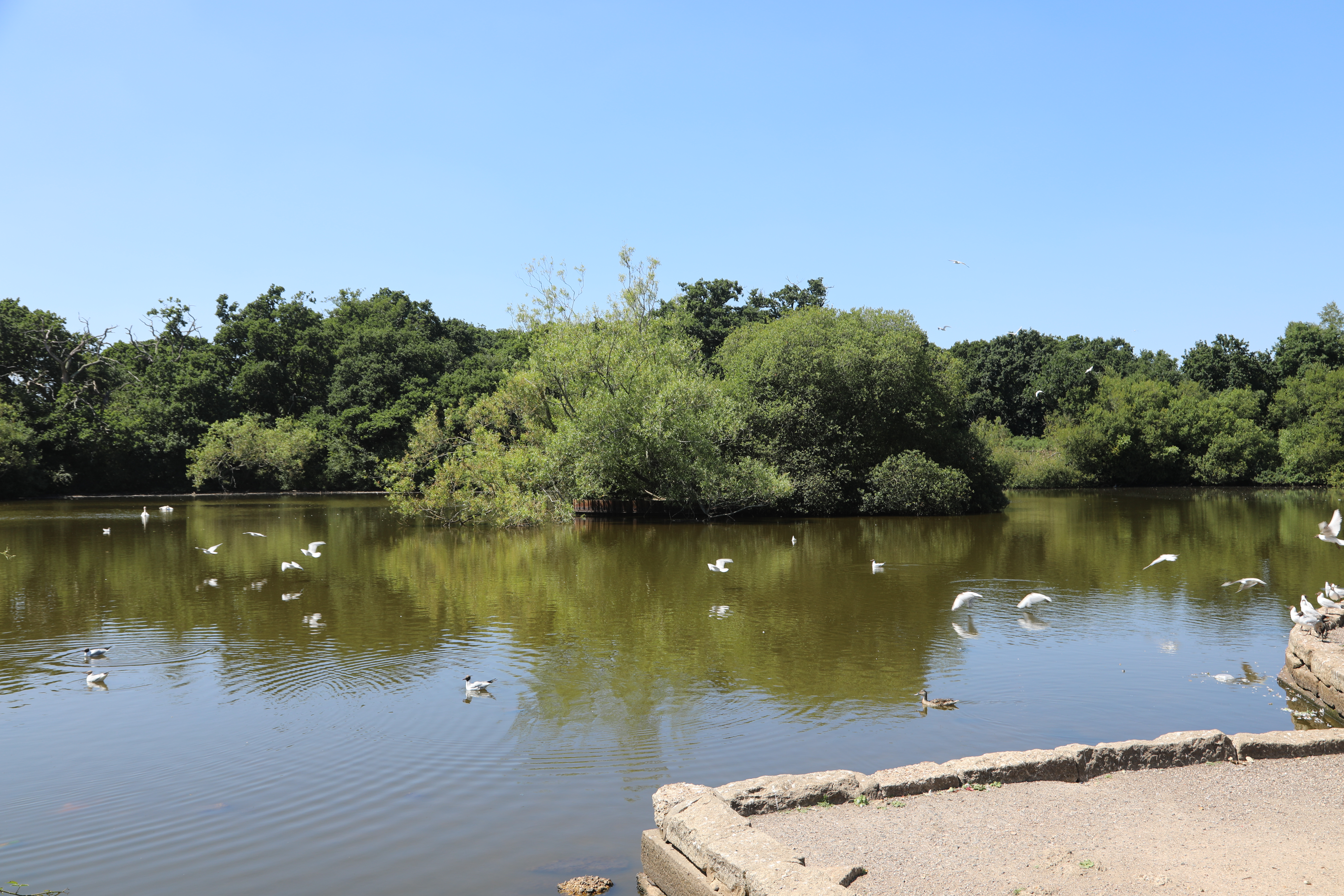 Photo of Cemetery lake on southampton common on a sunny day. Photo taken looking towards the island from the south